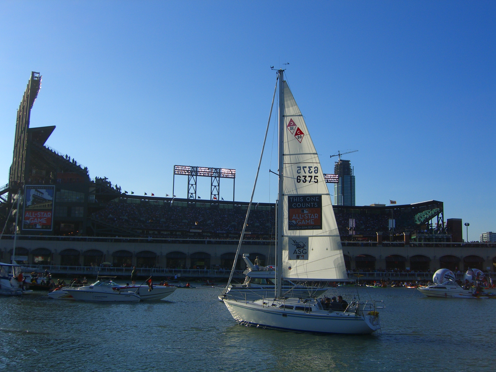 a schooner is a sailboat, stupidhead.